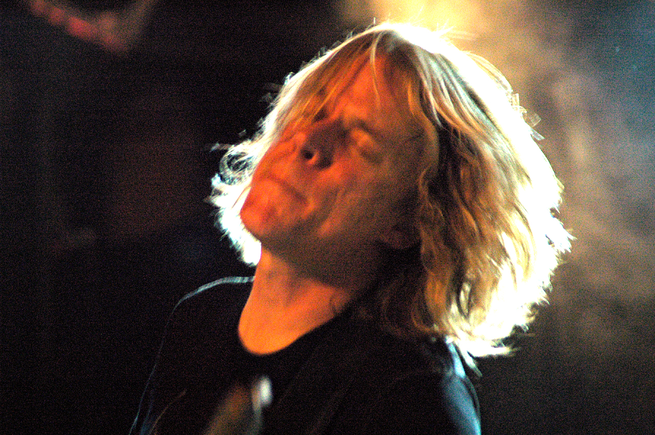 Andy Timmons - live in Rome 2008